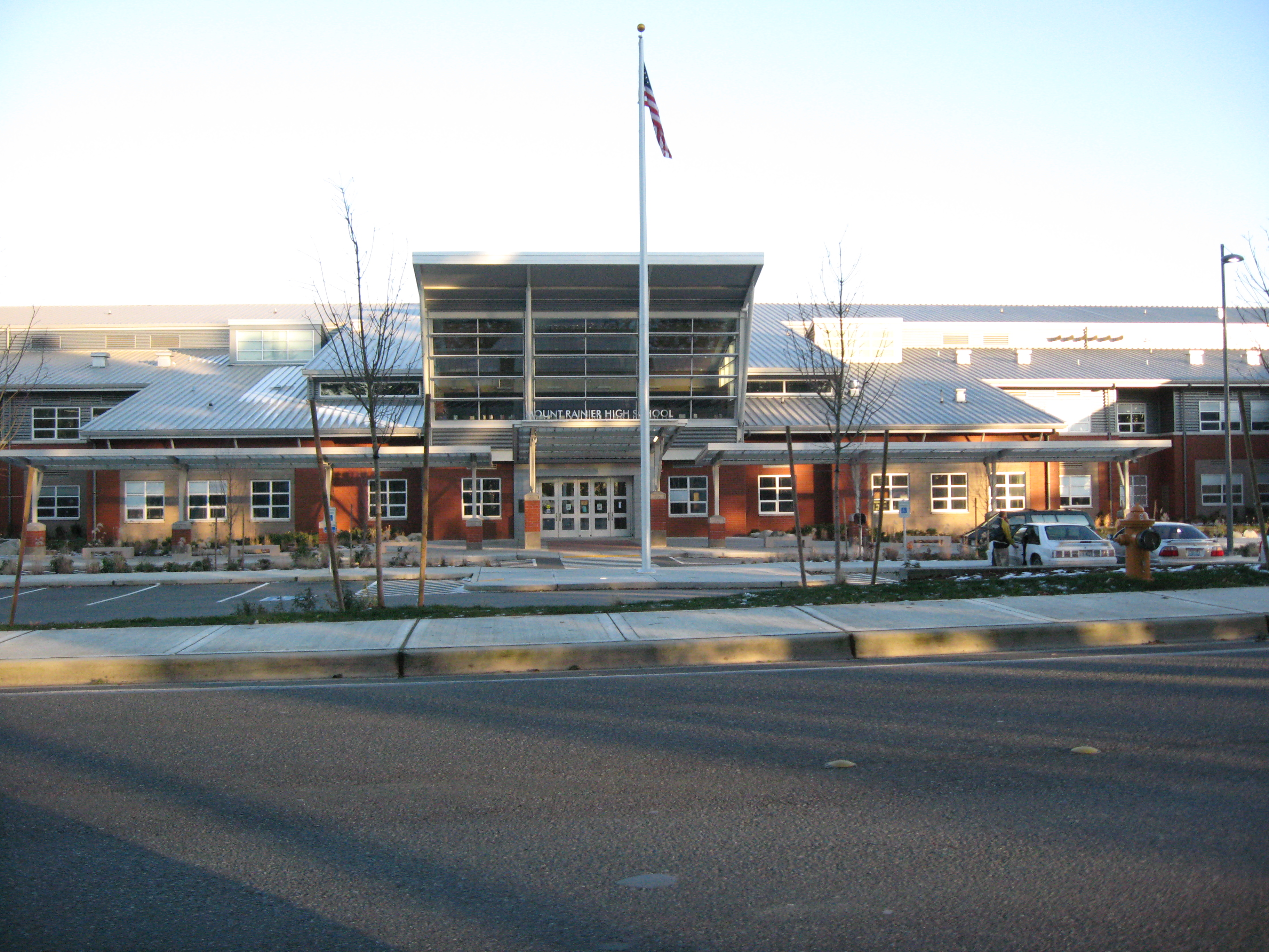 Mt. Rainier High School in Des Moines, Washington. Side note: There is a tiny bit of leftover snow on the grass on the right.